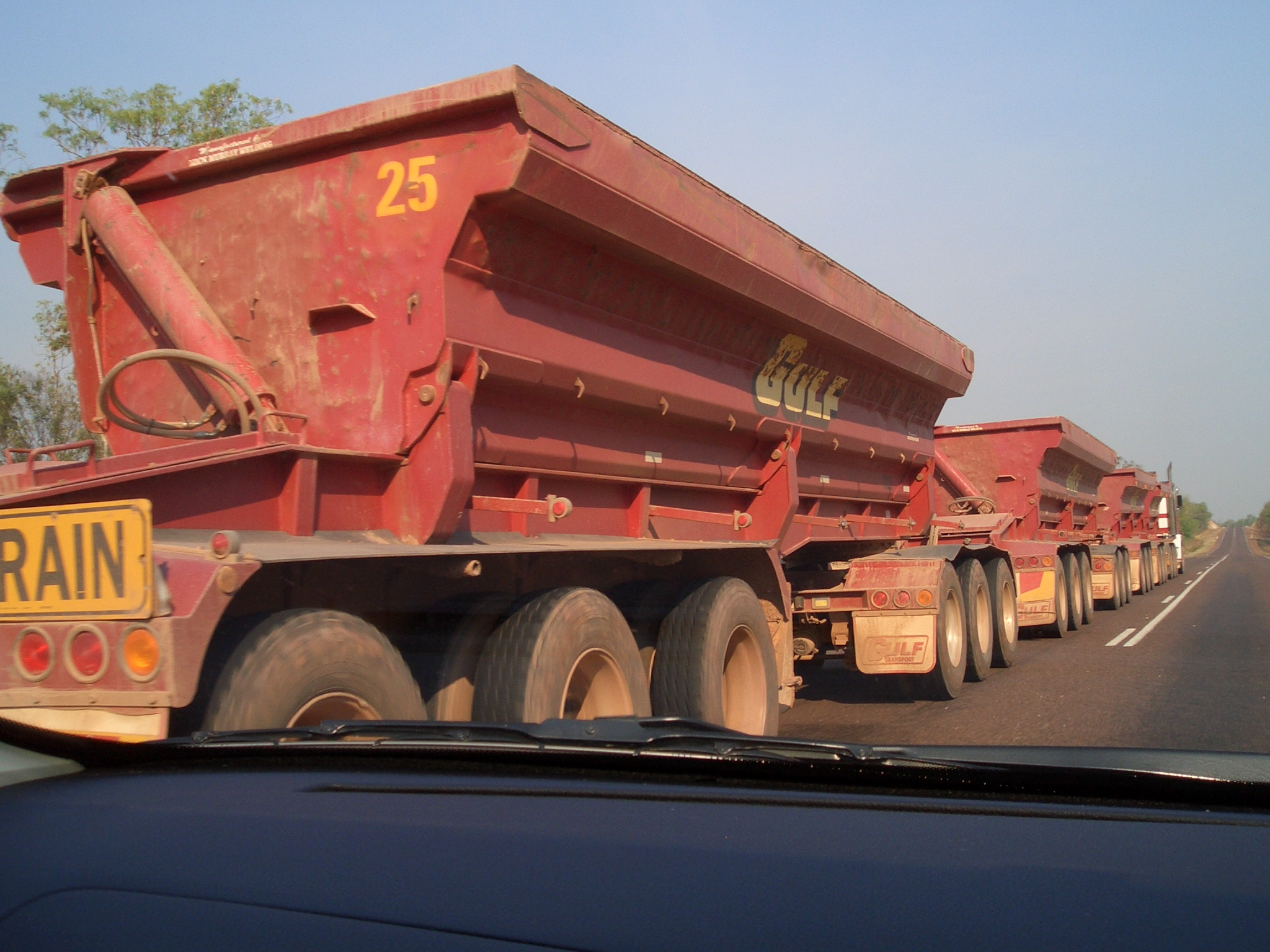 Passing a road train in Western Australia on the Great Northern Highway